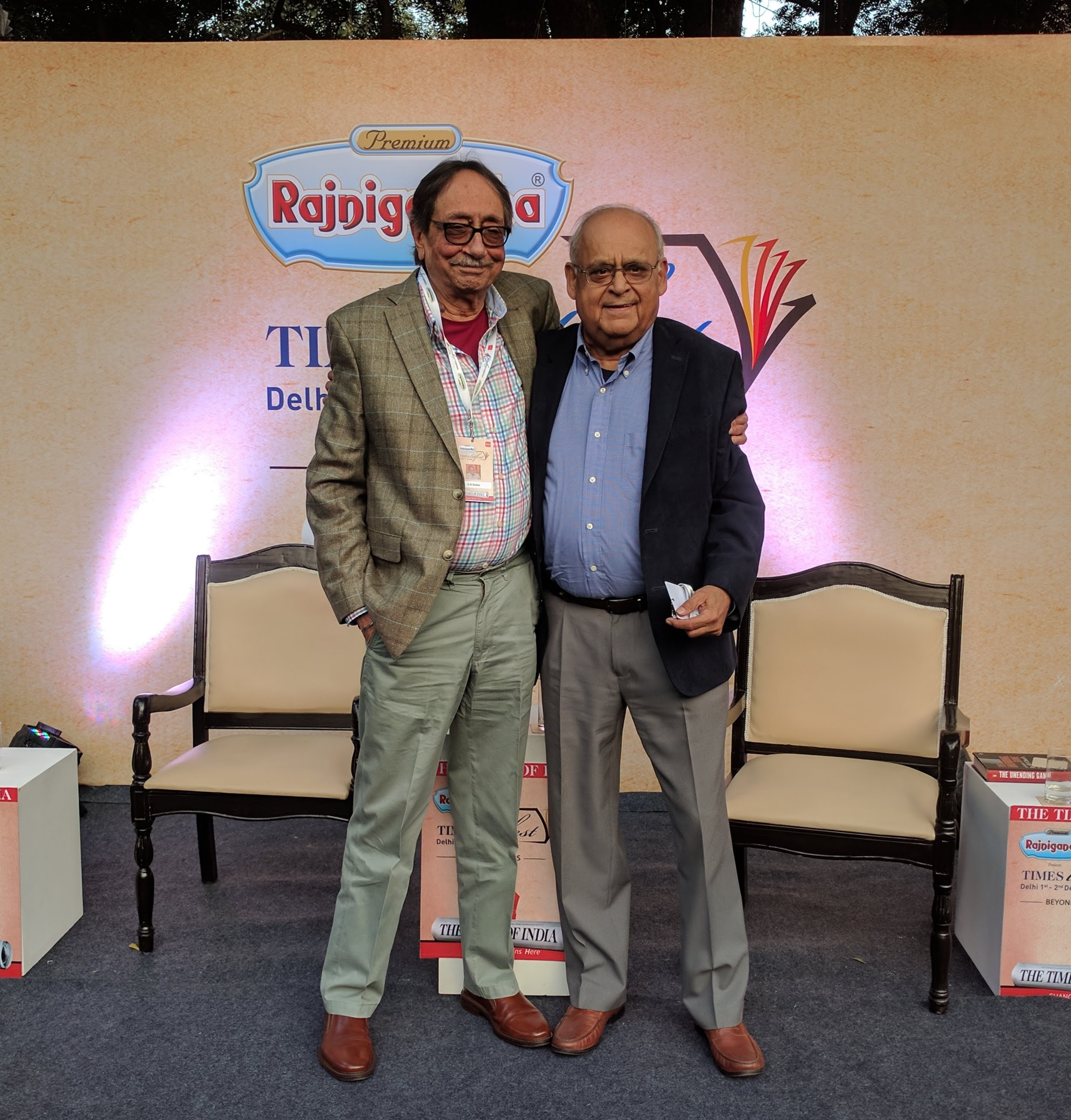 Former Research and Analysis Wing (RAW) chiefs AS Dulat (left) and Vikram Sood (right) at Times LitFest 2018